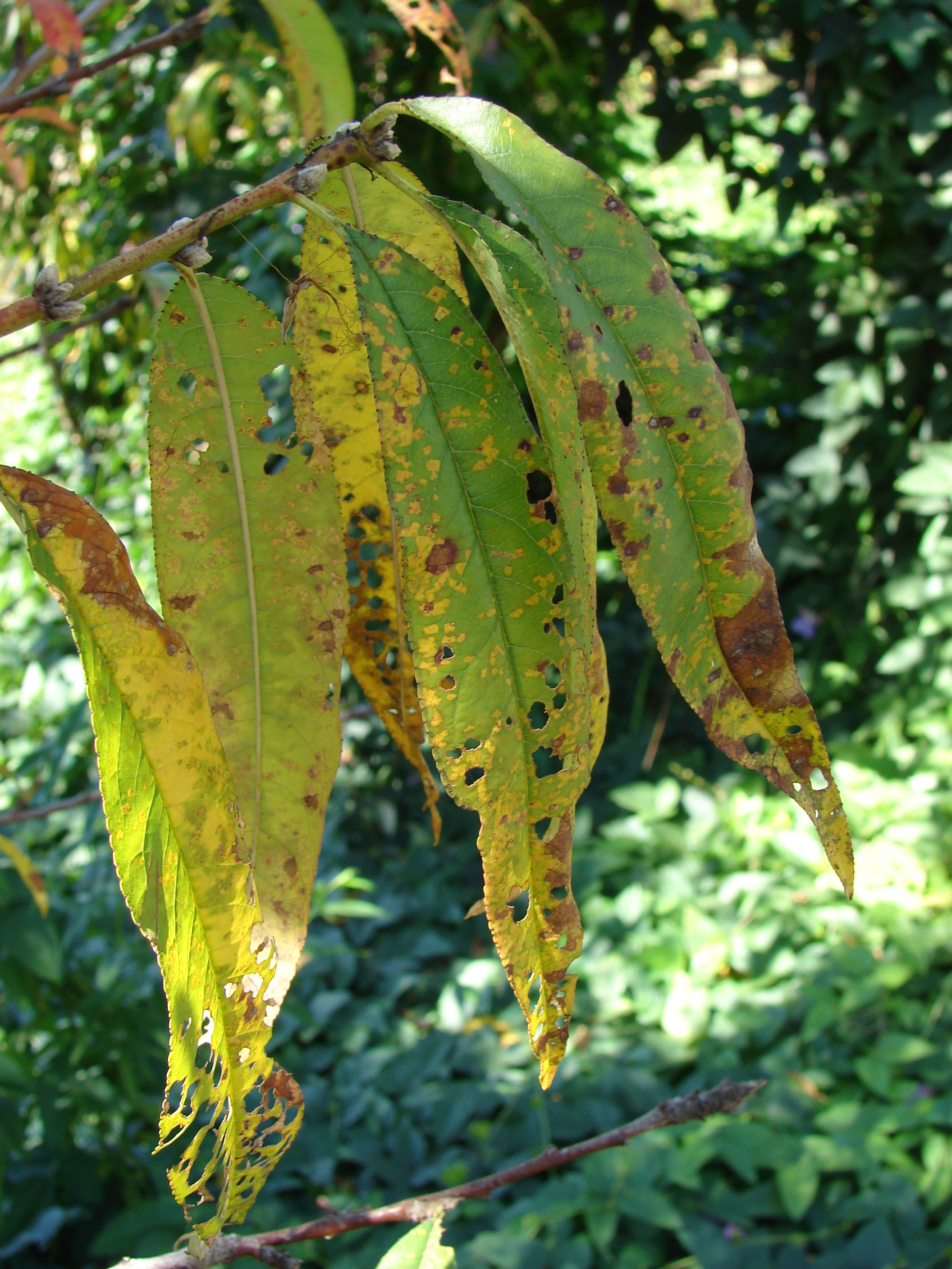 Prunus persica (leaves). Location: Maui, Enchanting Floral Gardens of Kula